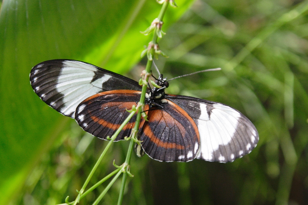 Heliconius cydno - Cydno longwing, underside, Central America, Monsanto Insectarium, St. Louis Zoo, 2006, Robert Lawton (self)